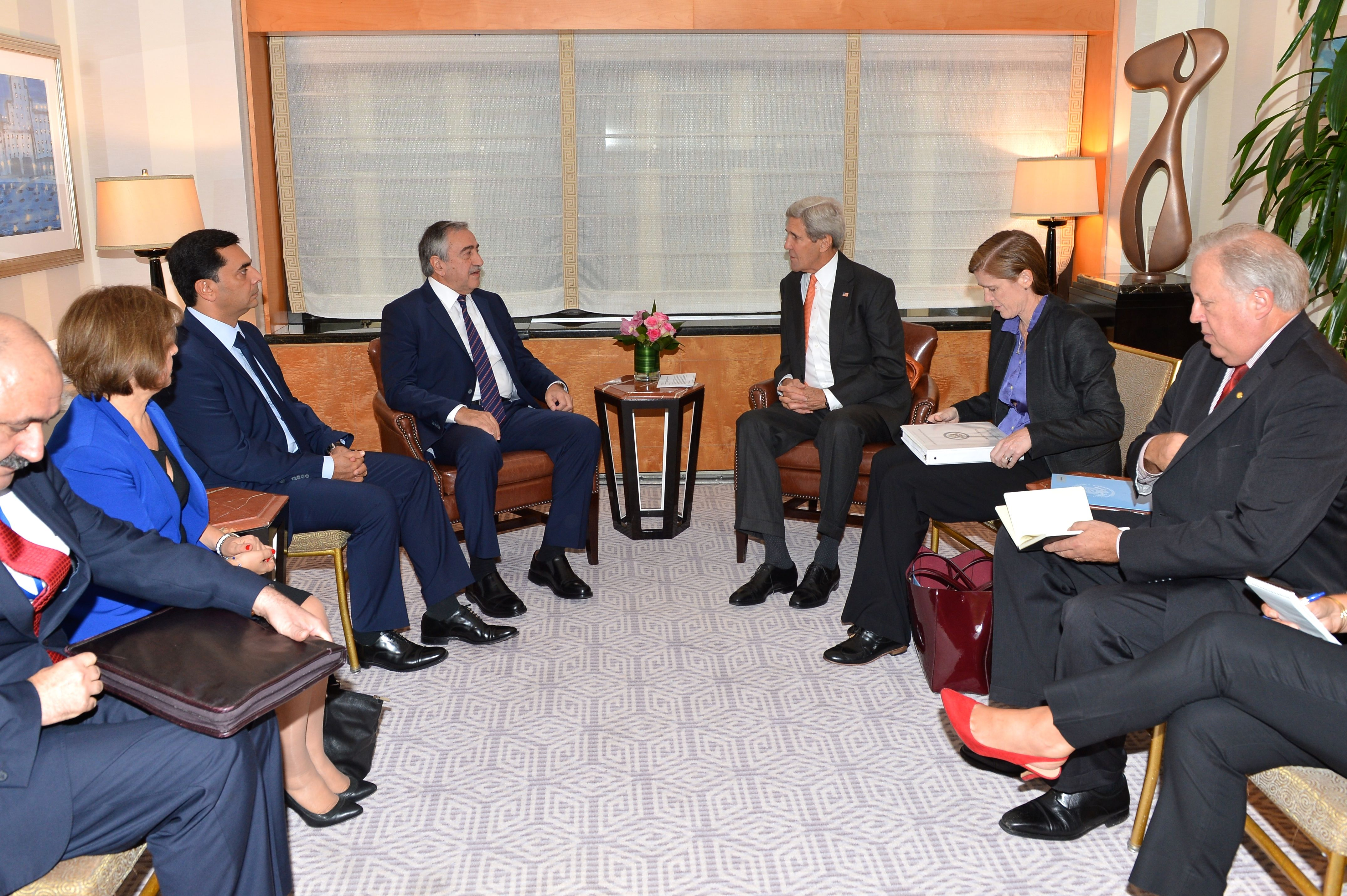 U.S. Secretary of State John Kerry meets with Turkish Cypriot leader Mustafa Akinci on the sidelines of the 70th Regular Session of the UN General Assembly in New York, New York, on October 2, 2015. [State Department photo/ Public Domain]